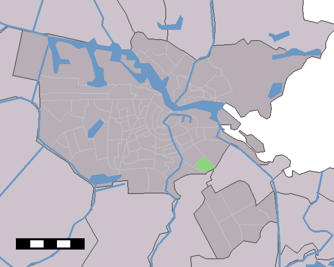 Location of neighbourhoods/districts in Amsterdam